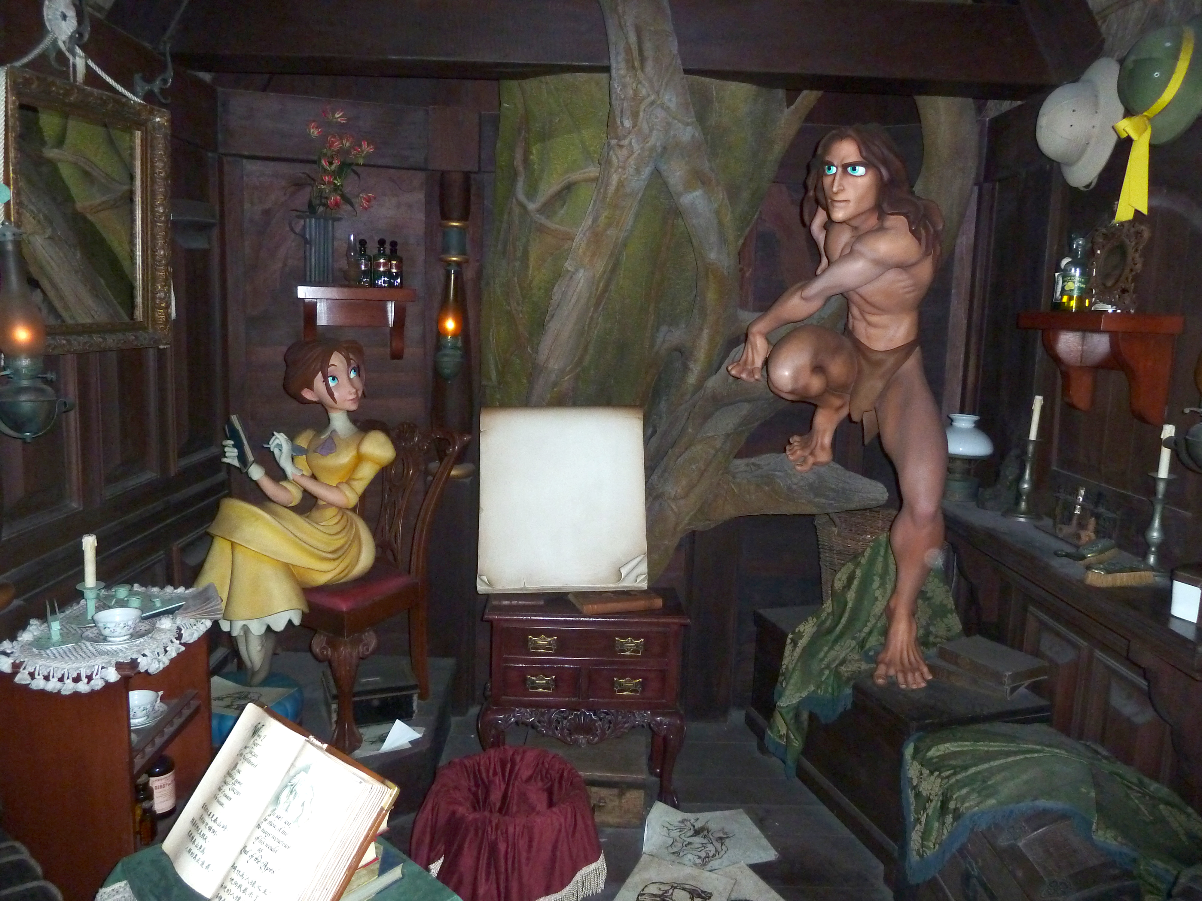 A scene of Jane & Tarzan in Tarzan's Treehouse at Hong Kong Disneyland